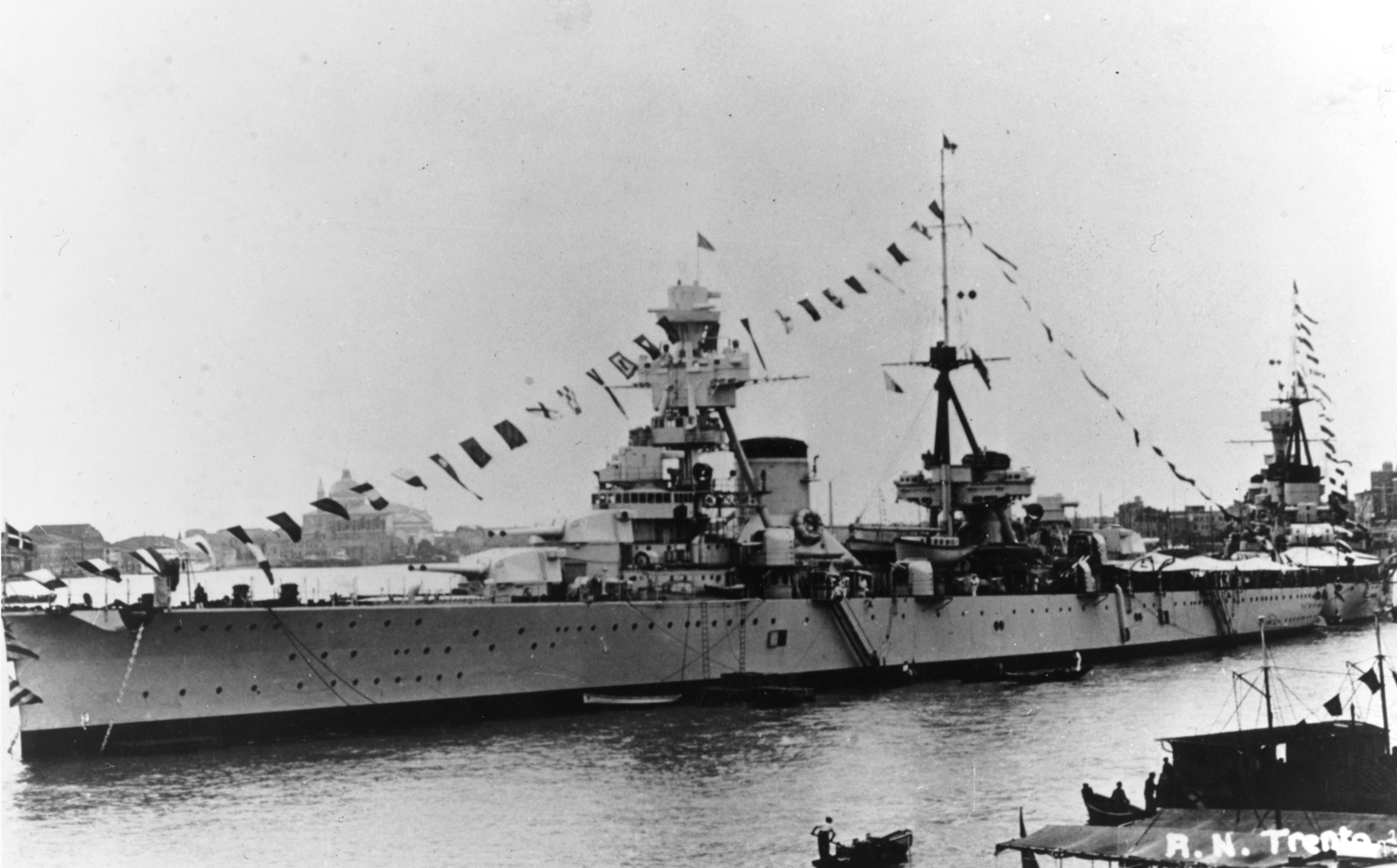 The Italian cruiser Trento, photographed early in her career at Venice, Italy.